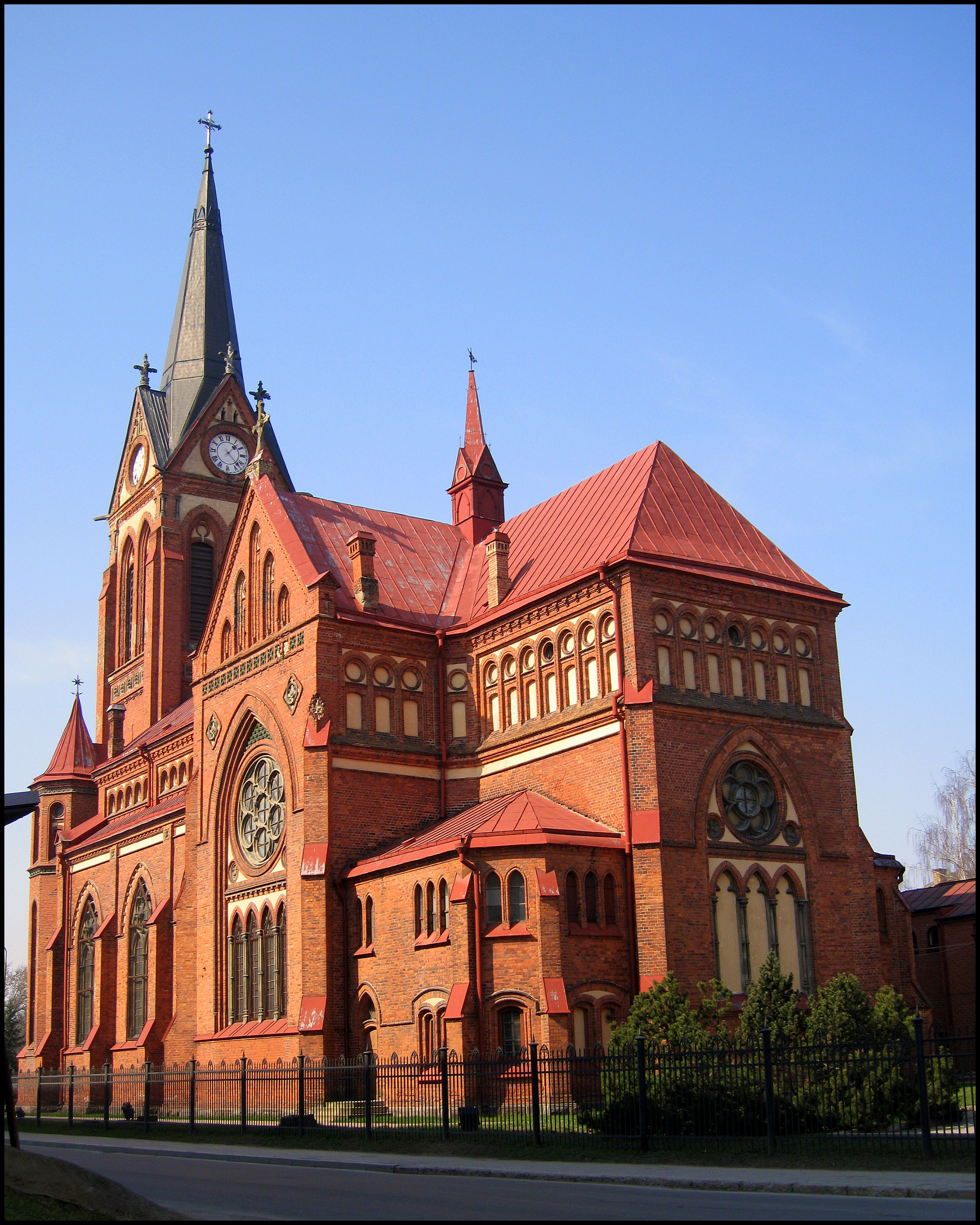 Jelgava St. George and St. Maria Roman Catholic Cathedral